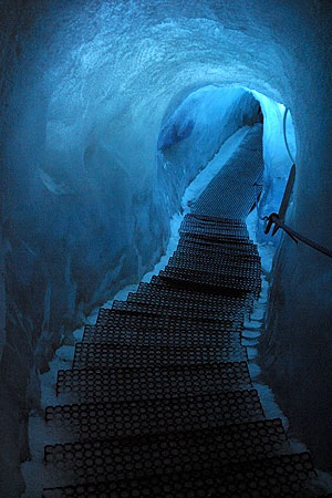 An ice cave inside the Fee Glacier, Switzerland